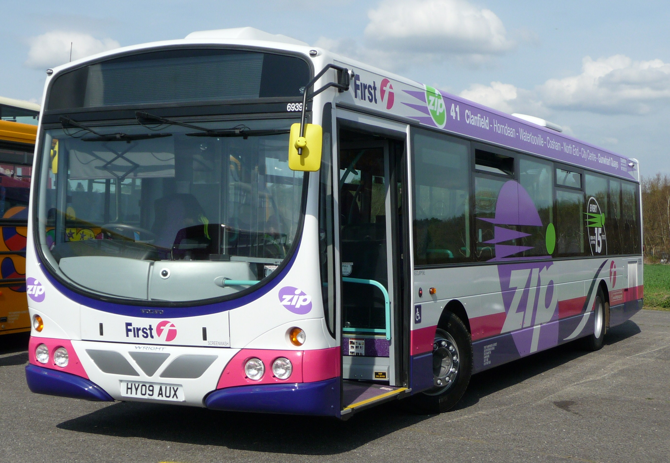 First Hampshire & Dorset's 69398 (HY09 AUX), a Volvo B7RLE/Wright Eclipse Urban, at the 2009 Cobham bus rally at Wisley Airfield.